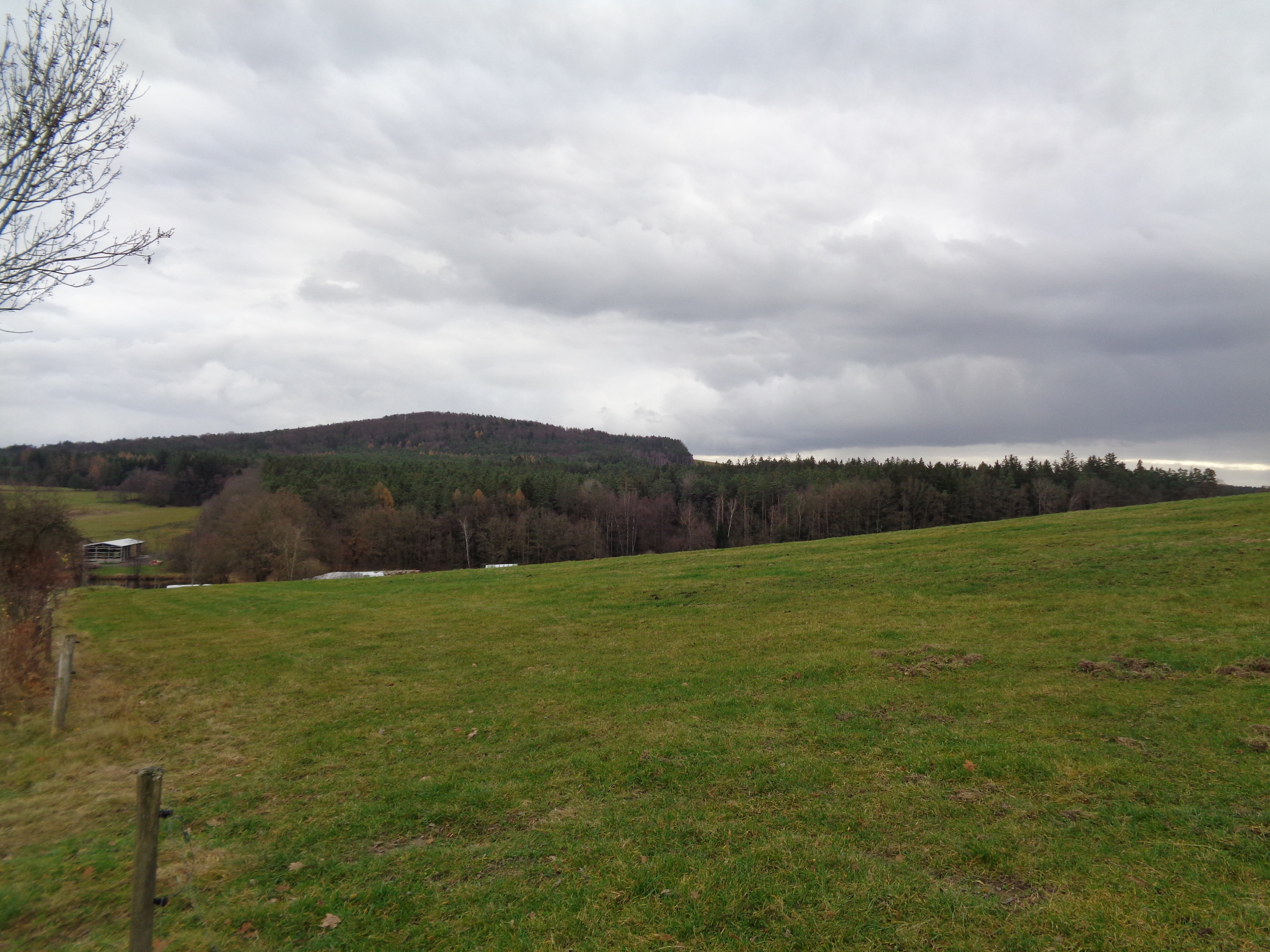 Todeňská hora in České Budějovice District